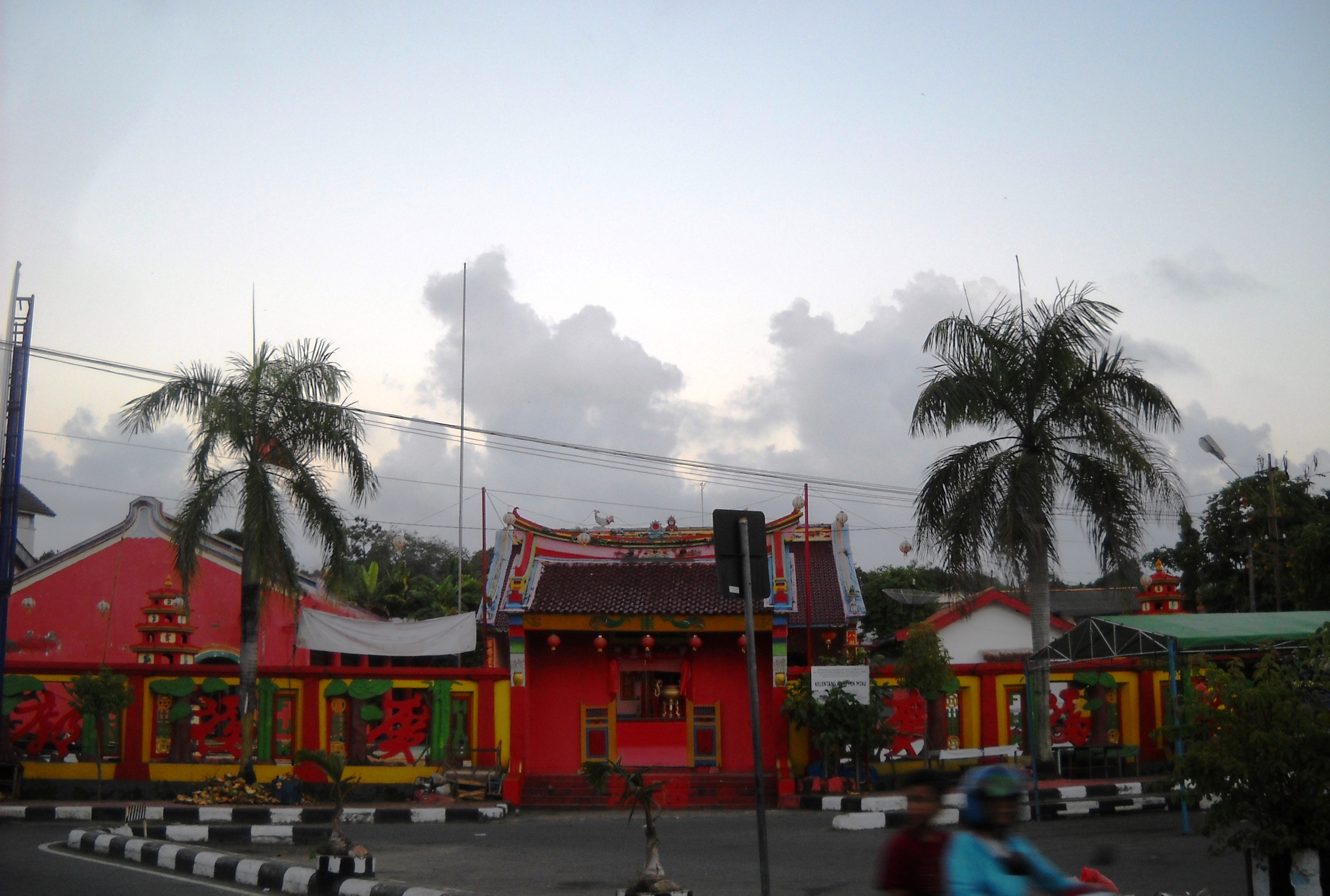 Kóng-fuk-miau, 廣福廟 , Chinese temple in Muntok city （built in 1800、s）, Bangka Island.